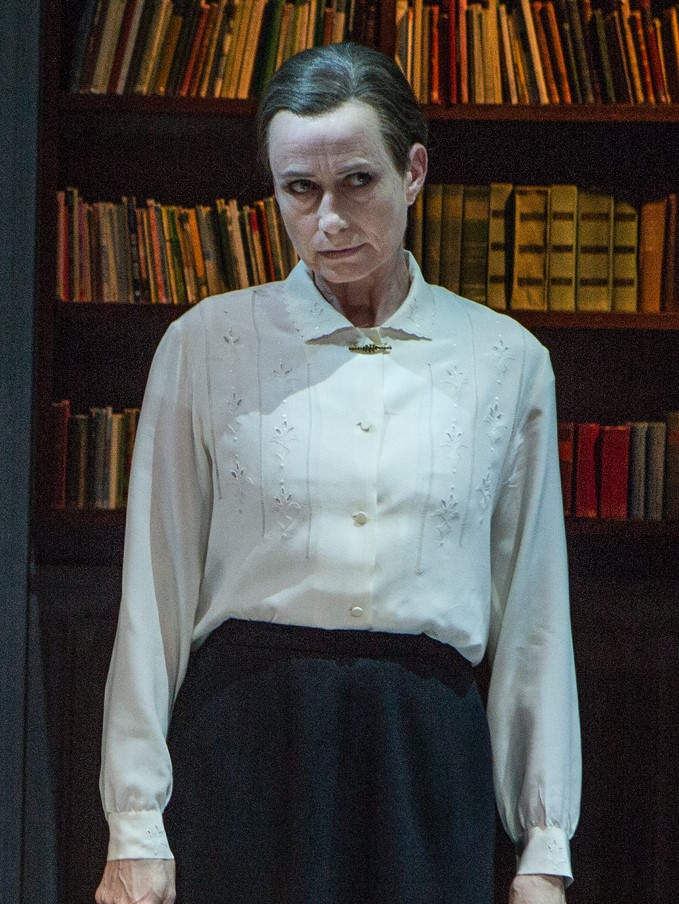 Sarah Boberg as housekeeper in the Copenhagen theater Folketeatret's production of the play "Toves værelse – Tove Ditlevsens sidste kærlighed" by Jakob Weis.